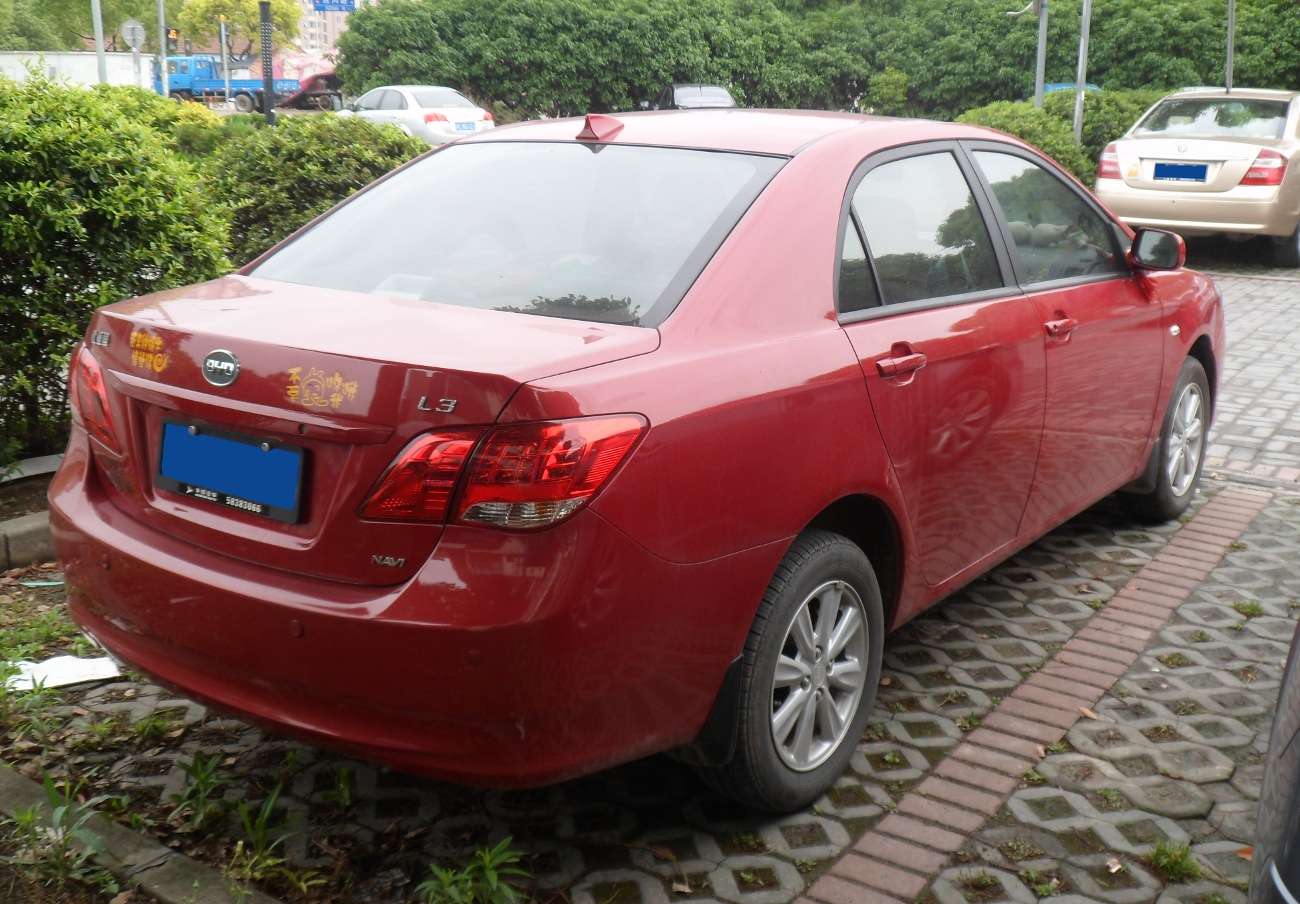 BYD L3 photographed in Shanghai, China.